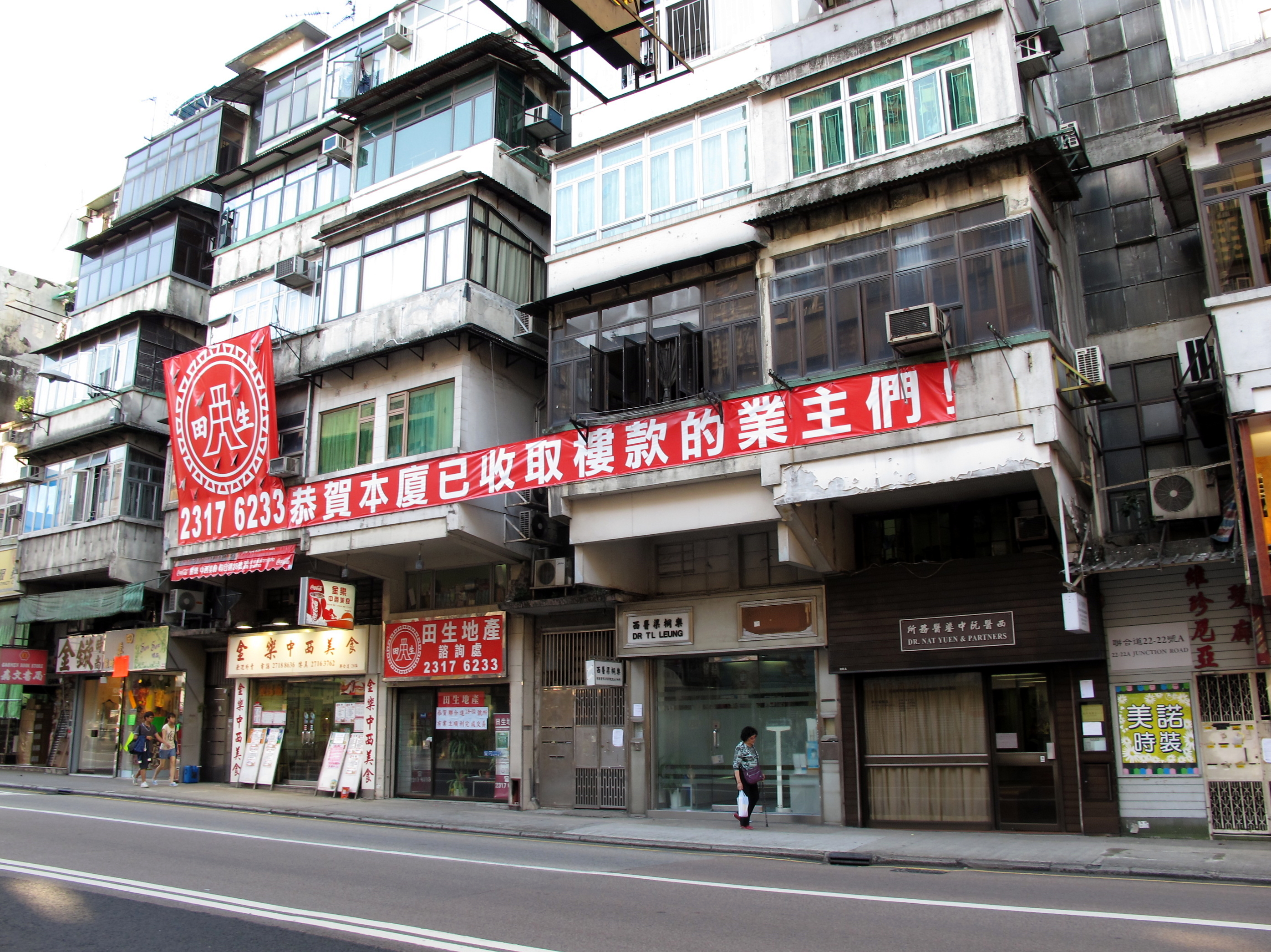 Richfield Reality Banner in Junction Road Buildings